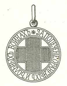 Cross for Women and Girls Russia